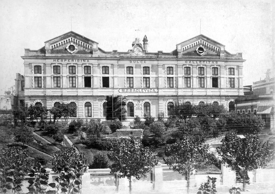 M.S. Bagley & Ca., company that manufactured cookies and the famous drink "Herperidina". The building was located in Barracas, Buenos Aires.